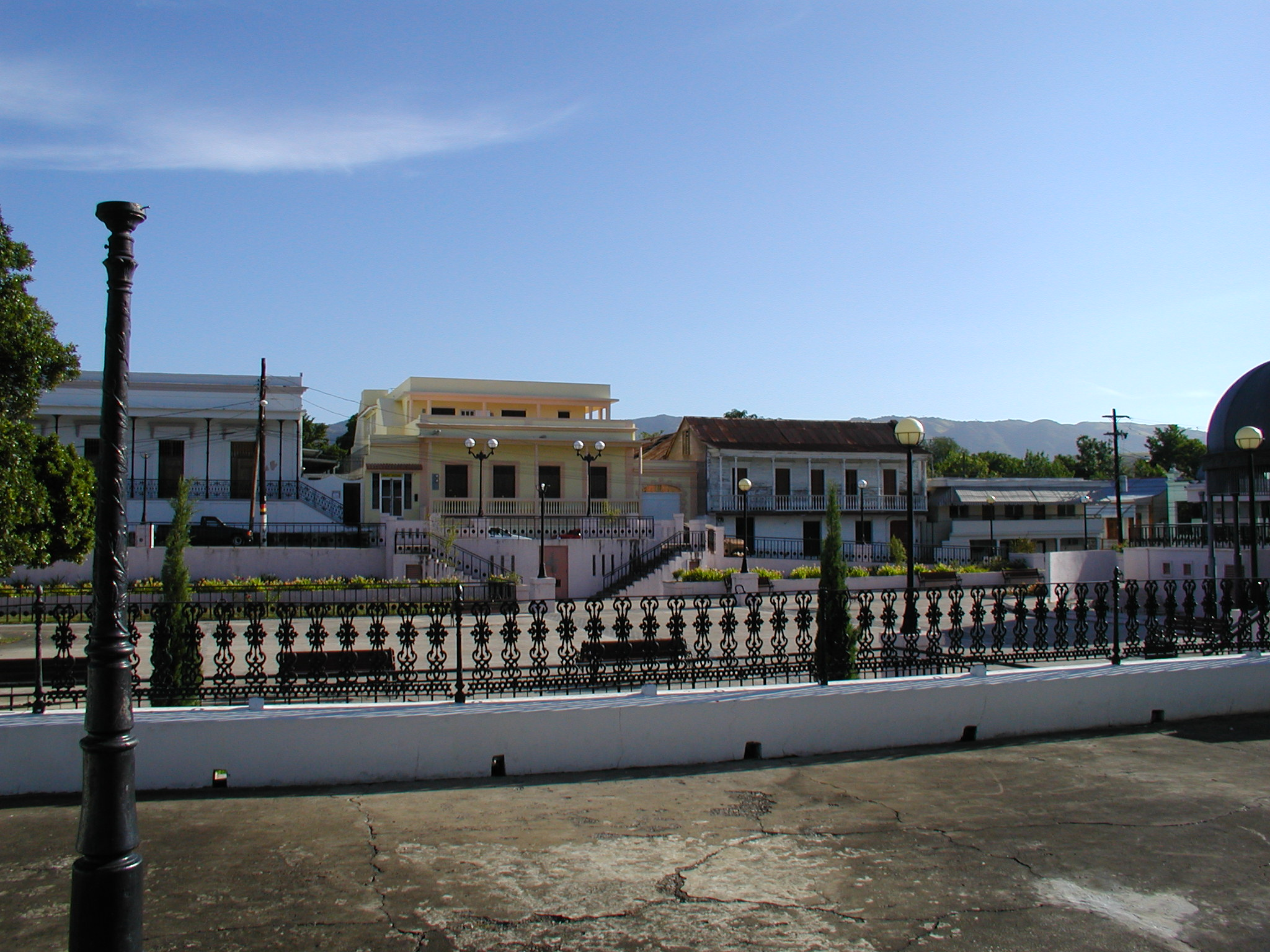 Side Street in Coamo, Puerto Rico